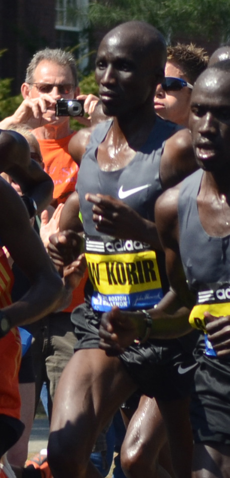 Wesley Korir male winner of 2012 Boston Marathon near half way point at Wellesley College scream tunnel.